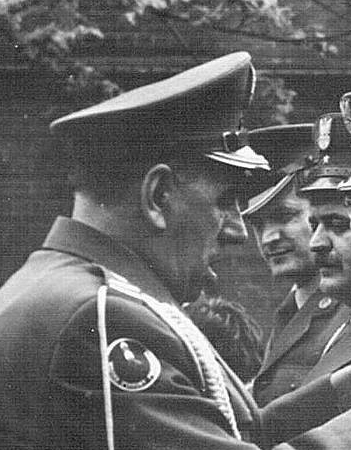 Piotr Węglowski, Polish officer.